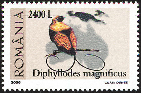 Magnificent Bird-of-paradise. Romanian stamp 20.03.2000